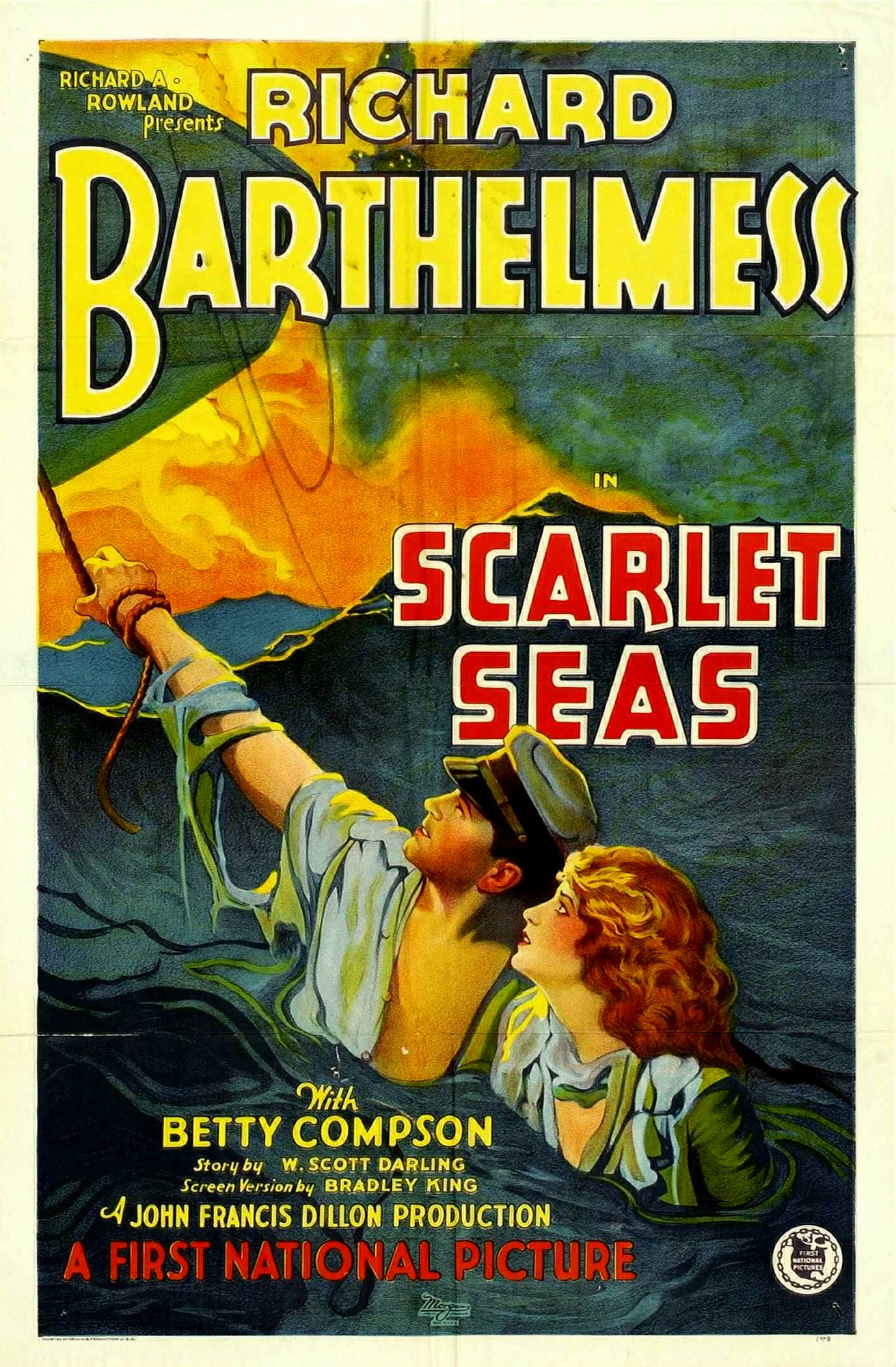 Poster for the American drama film Scarlet Seas (1929). The item has no copyright markings on it as can be seen in the links above. At bottom is Country of origin and production USA, a logo for Morgan Litho Corp, Cleveland, O.--they printed the poster--and some numbers which seem to pertain to the printing of the poster.